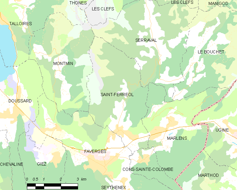 Map of French municipality Saint-Ferréol